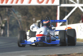 Paul Stephenson - Dallara F396 TOMS - 1999 Australian F3 National Series Winner